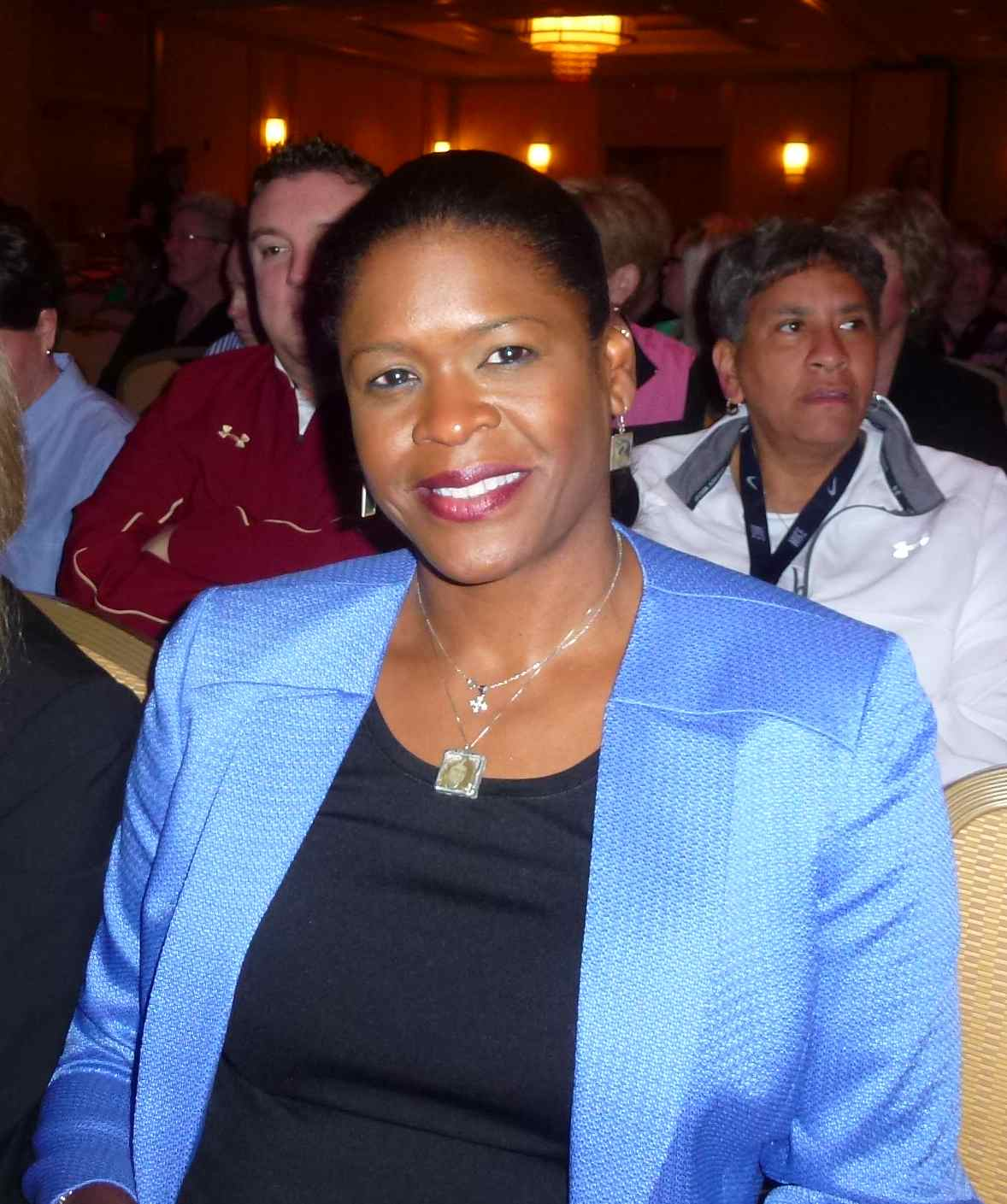 Anucha Browne Sanders, NCAA’s vice president of women’s basketball championships. Taken at the 2103 WBCA Convention in New Orleans